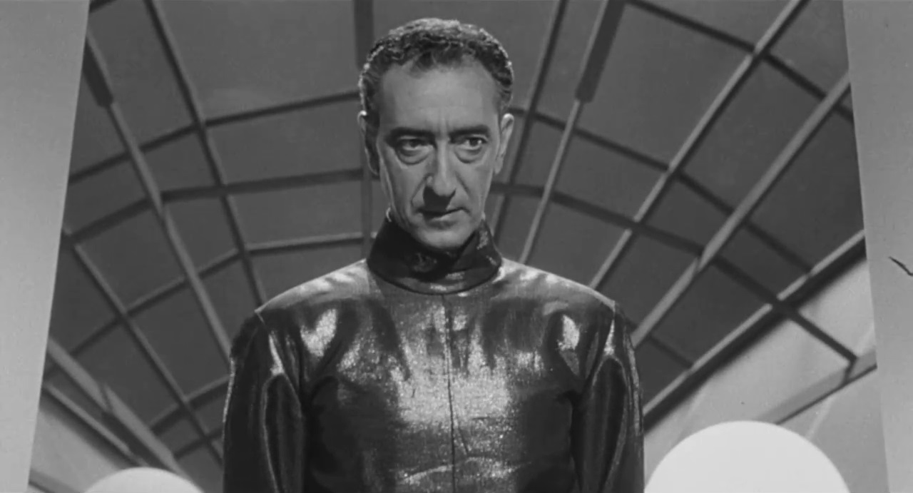 Arnold Moss in The 27th Day - trailer (cropped screenshot)